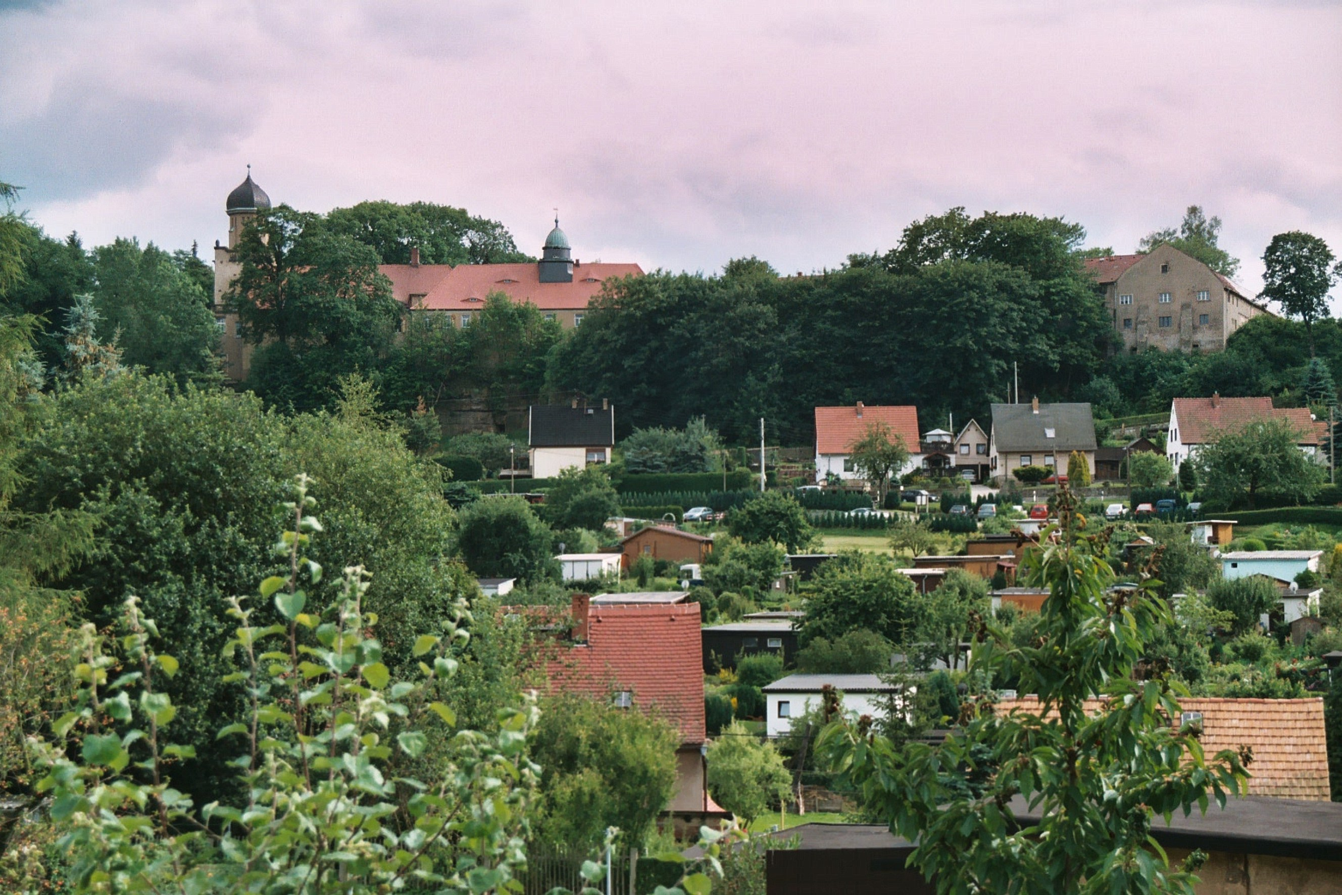 Struppen, view to the castle